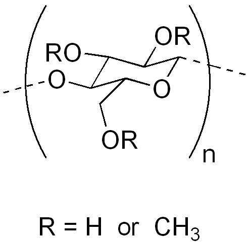 chemical structure of methyl cellulose